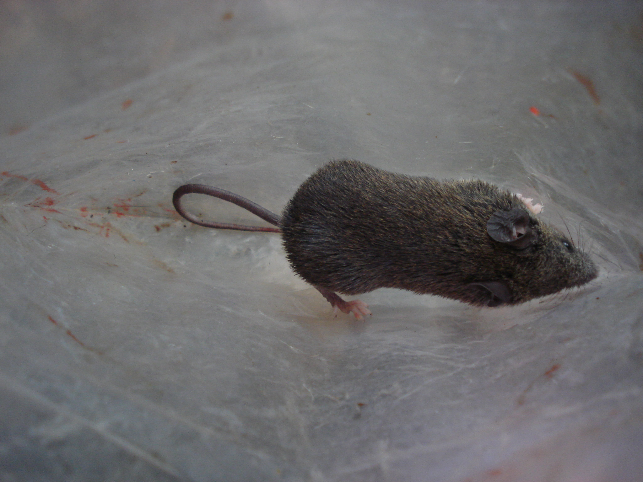 A rodent of the Muridae family, this species is found in the Himalayas.